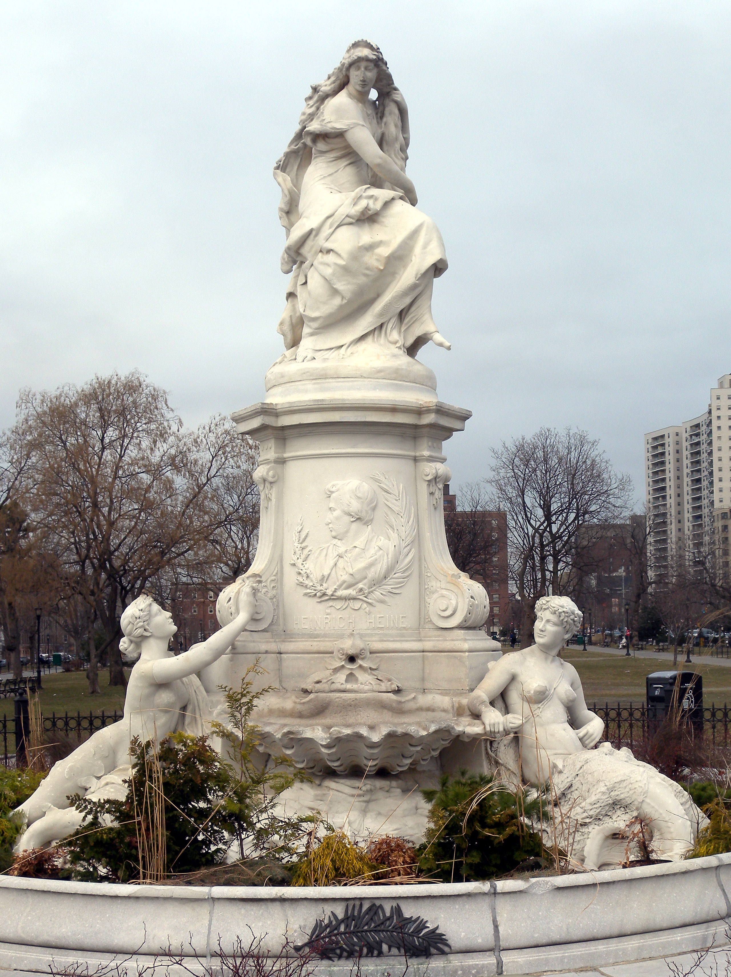 Looking north at Loreley Fountain on a cloudy afternoon.